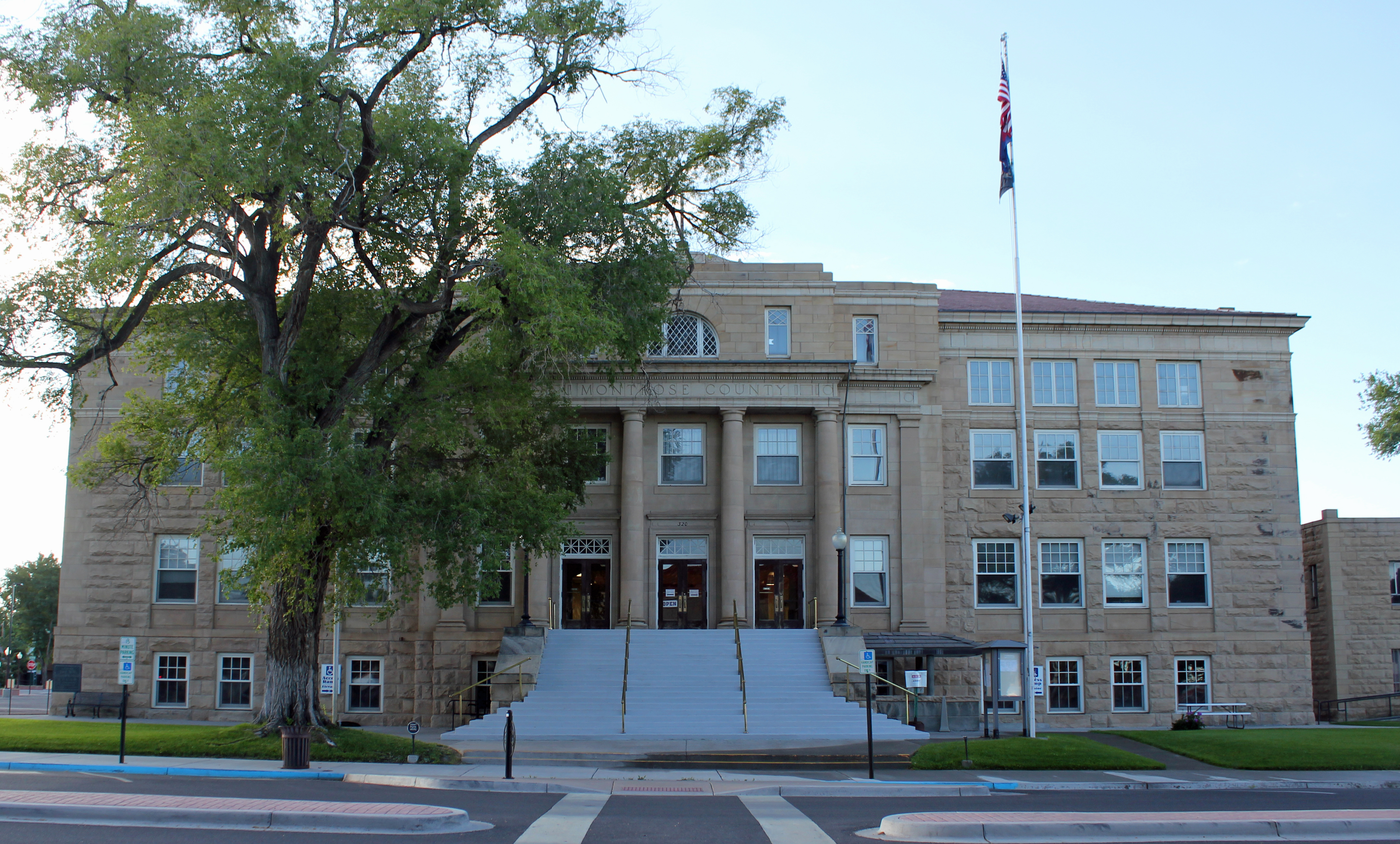 320 S. 1st St. Montrose County, Colorado National Register 2/18/1994, 5MN.1813 Constructed in 1922, using locally quarried sandstone, the roof of this three-story Classical Revival building is covered with red tile. Denver architect William Norman Bowman is credited with the design. - See more at